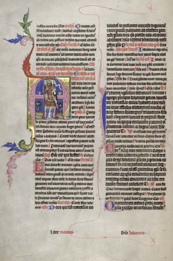 St. Wenzeslaus, picture from liber viaticus (1360 - 1364)